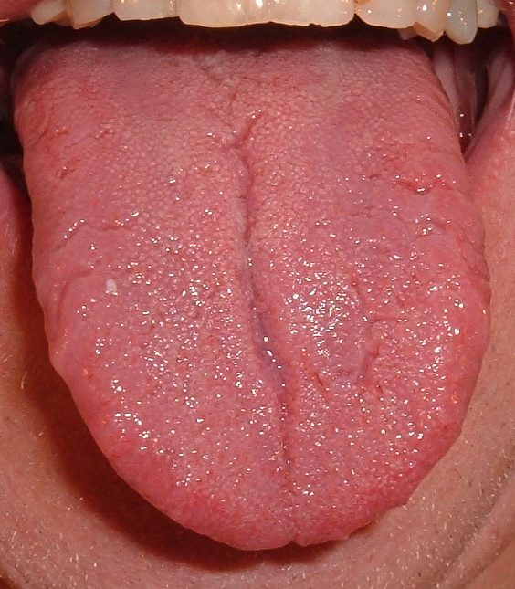 Human tongue. One of a series of common objects I photographed in the summer of 2005 to illustrate Basic English picture wordlist. --agr 21:08, 3 August 2005 (UTC)